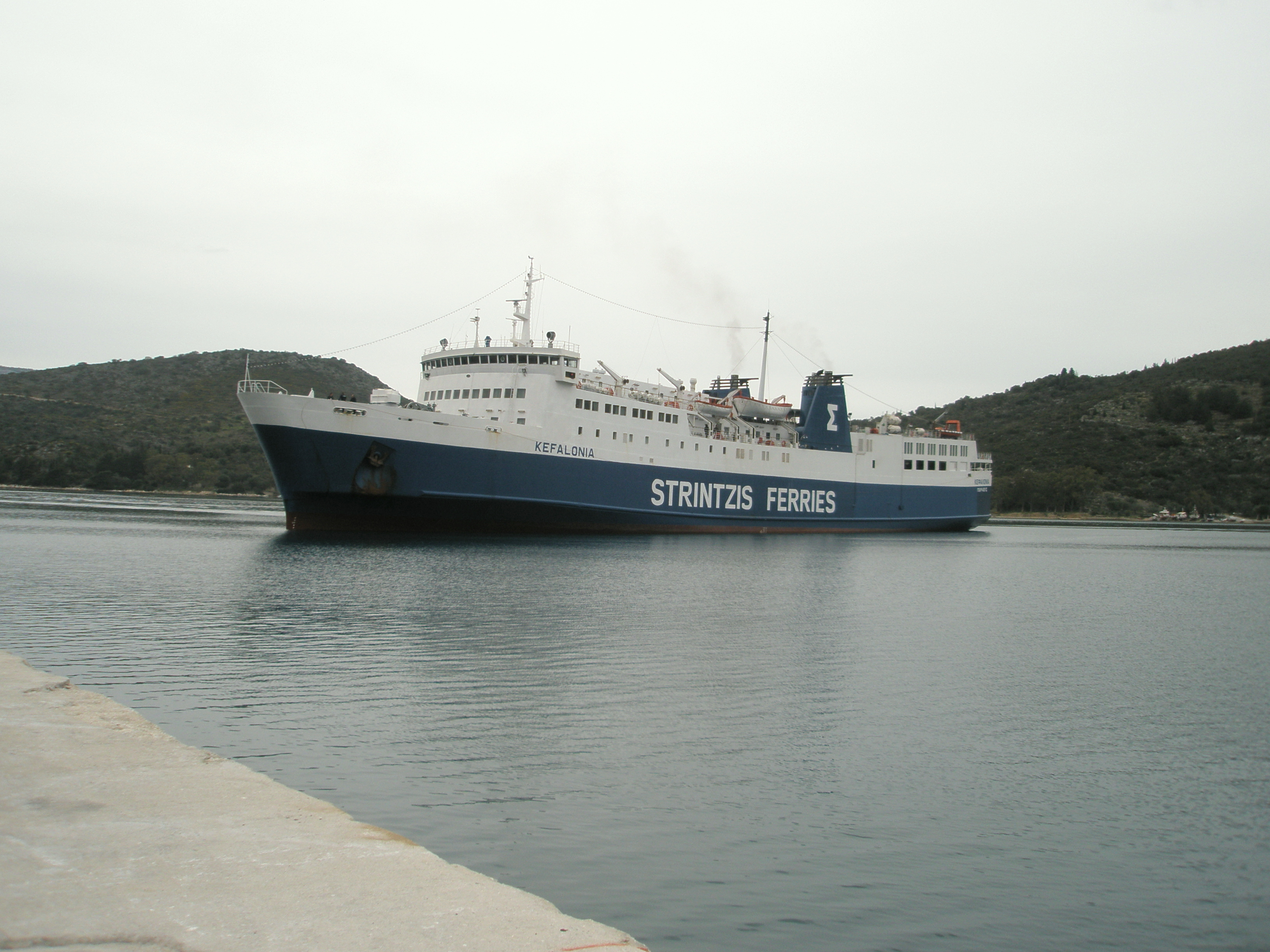 Strintzis Ferries in Vathy/Greece